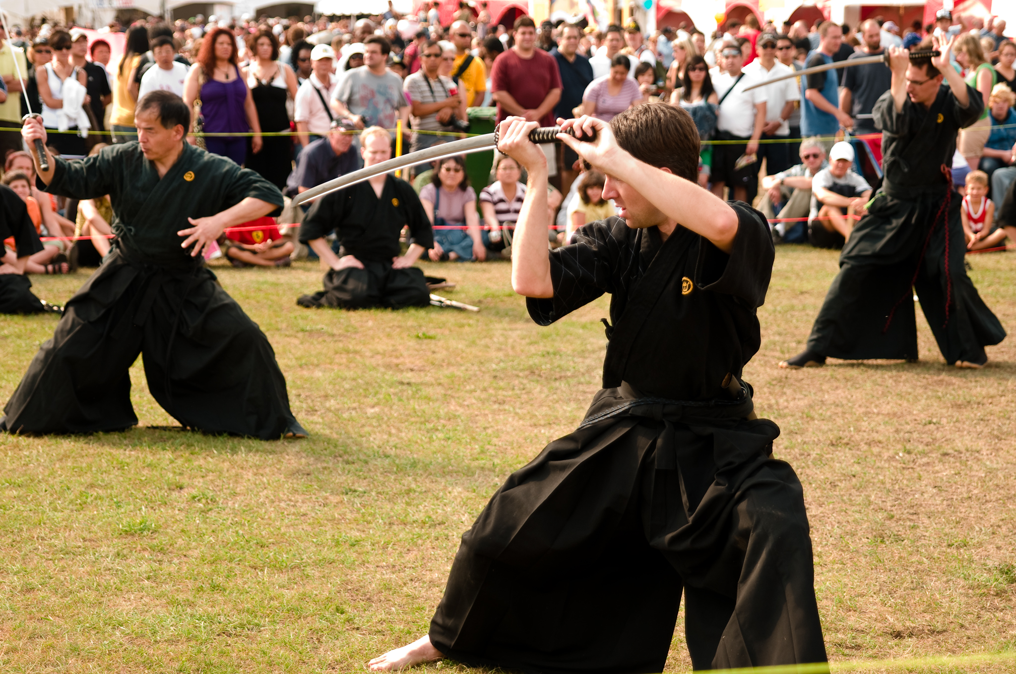 Students from the Noble House Kenjutsu school demonstrate an advanced kata with bare steel in Edmonton, Alberta, Canada